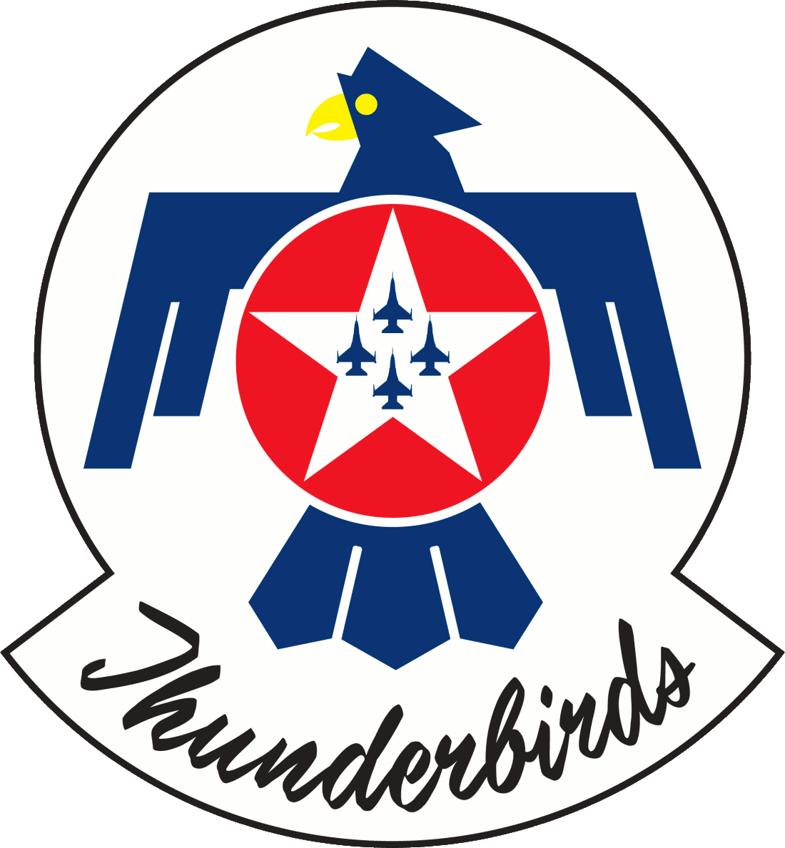 Emblem of the U.S. Air Force Air Demonstration Squadron of the United States Air Force